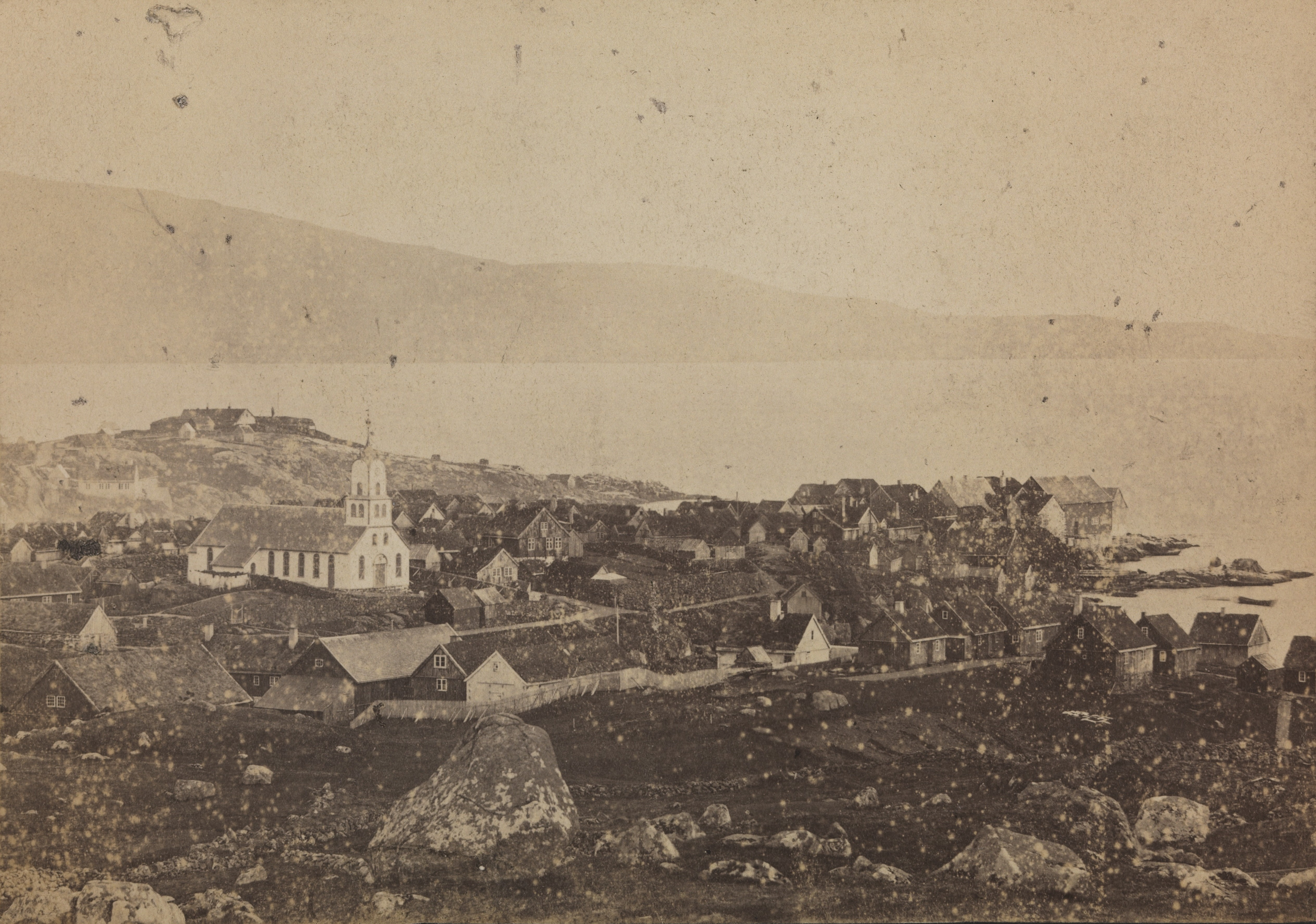 View toward the city. One of the pictures from the expedition to Greenland in the period July 1888 to May 1889. Fridtjof Nansen together with 5 other Norwegian participants crossed Greenland in the course of a 42-day skiing trip from the east to the west coast.